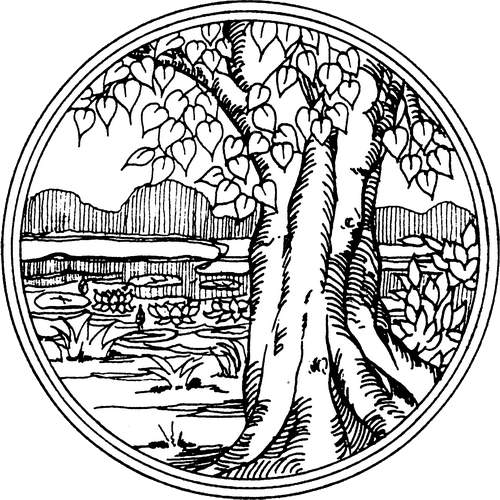 Provincial seal of Phichit province.